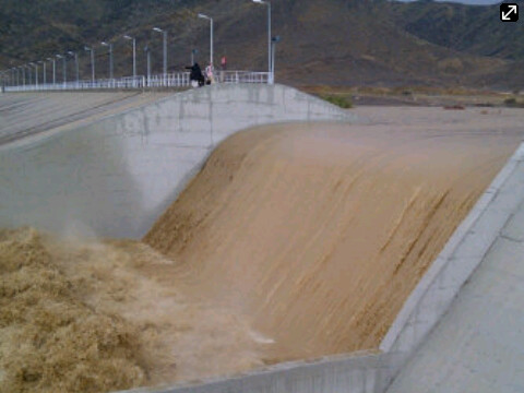 Bahwan Balahmar Dam